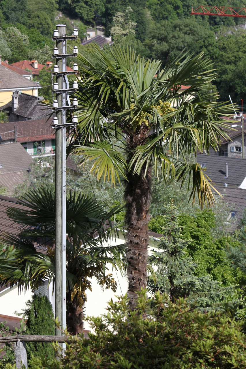 Telephone pole at Tegna (Salita Sant'Anna street).